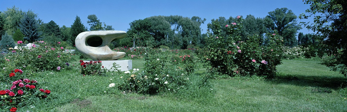 Hermann Walenta: Abstract Composition, 1959